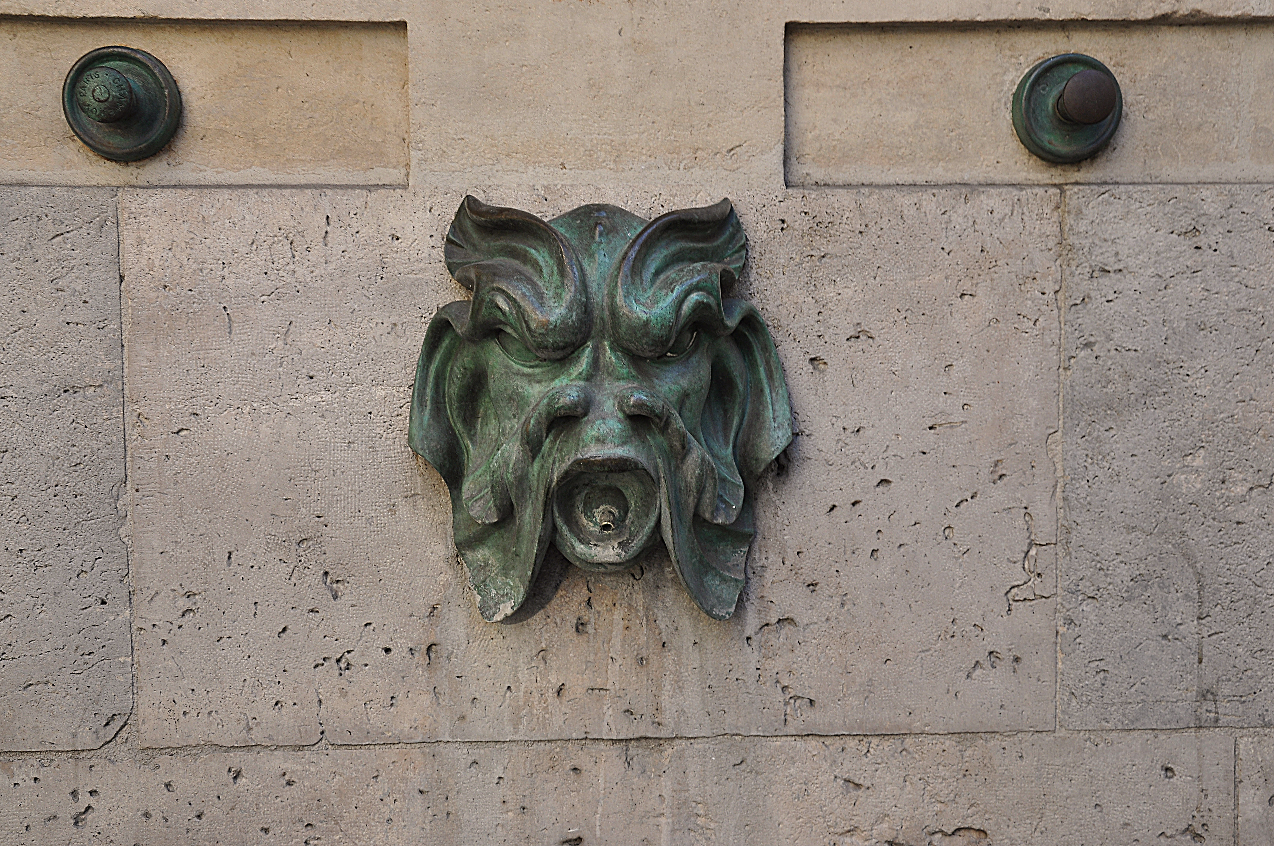 Mascaron fo the fountain of Vertbois situated at the corner of the streets rue du Verbois and rue Saint-Martin in the 3rd district of Paris. Built in 1712 by the architect Jean-Baptiste Bullet de Chamblain.